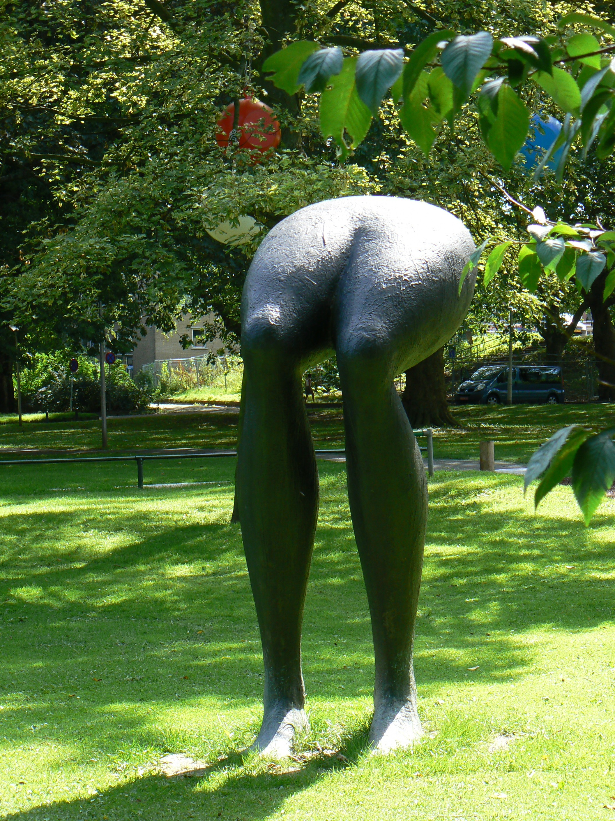 sculpture by Henk Visch in Rotterdam/The Netherlands